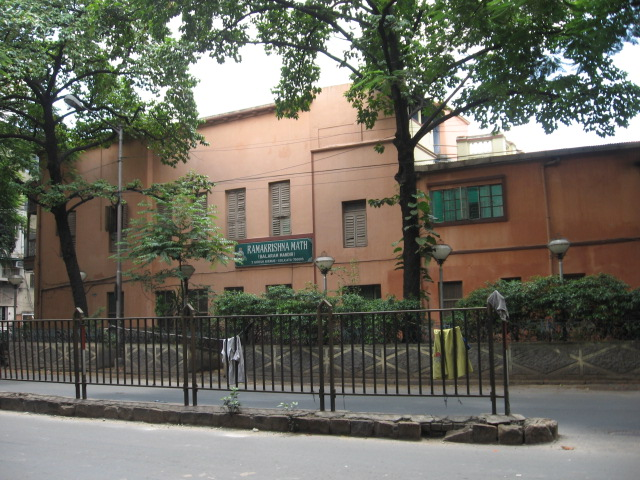 Own photograph Ramakrishna Math, previously house of Balaram Bose, Bagbazar, Kolkata